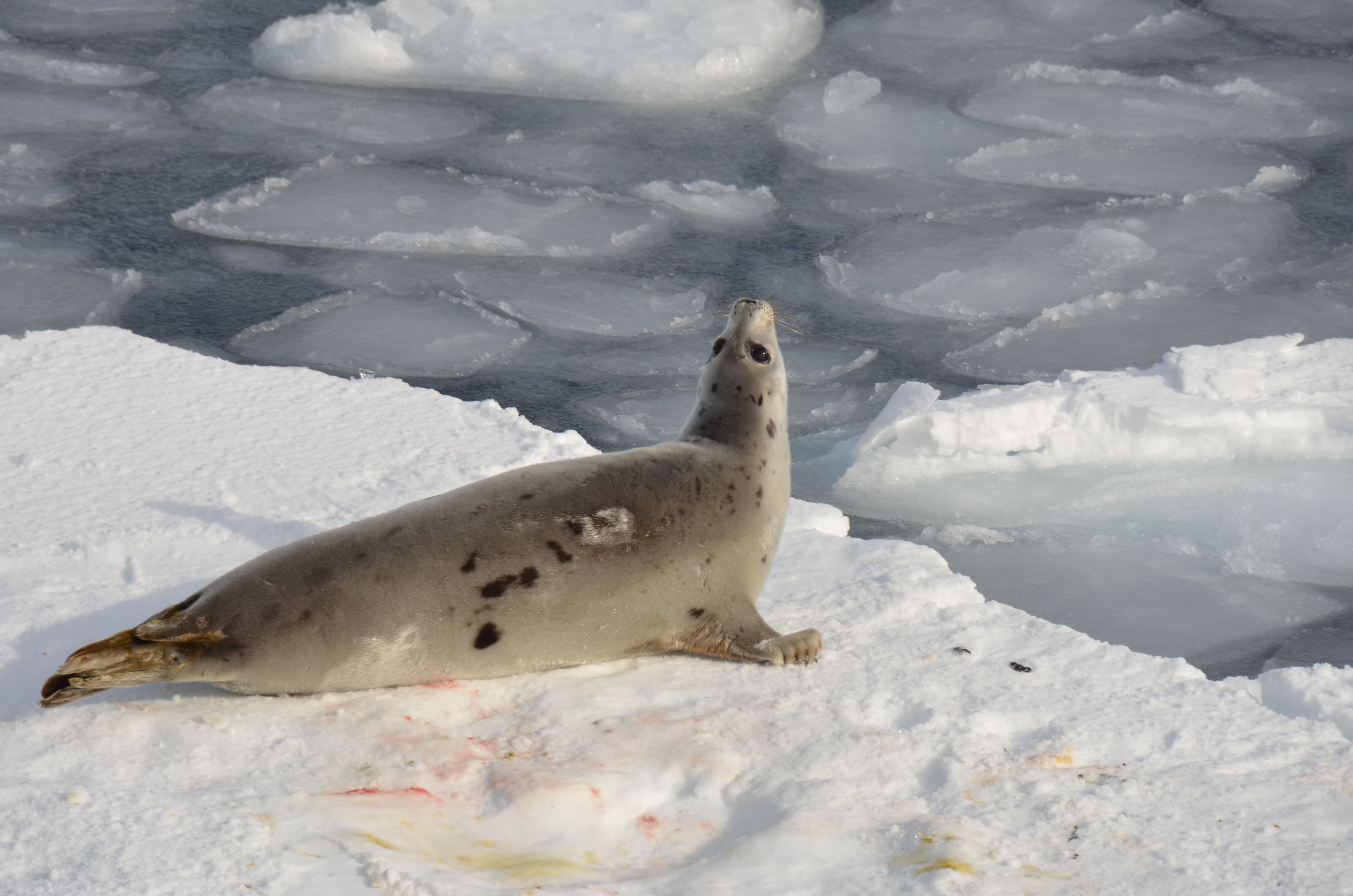 Adult? Harp seal in the west ice.